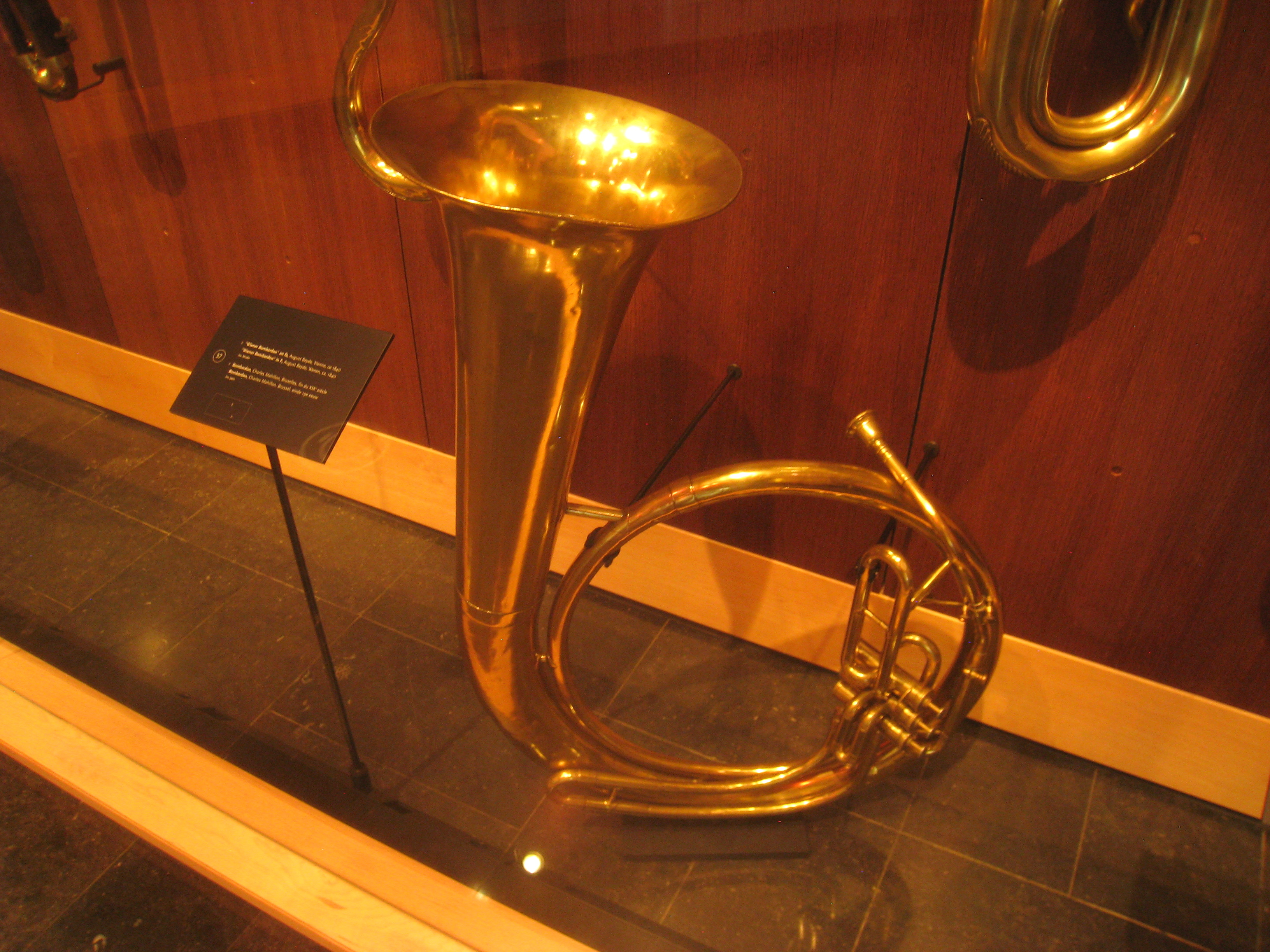 Brass instruments in the Musical Instrument Museum, Brussels, Belgium.